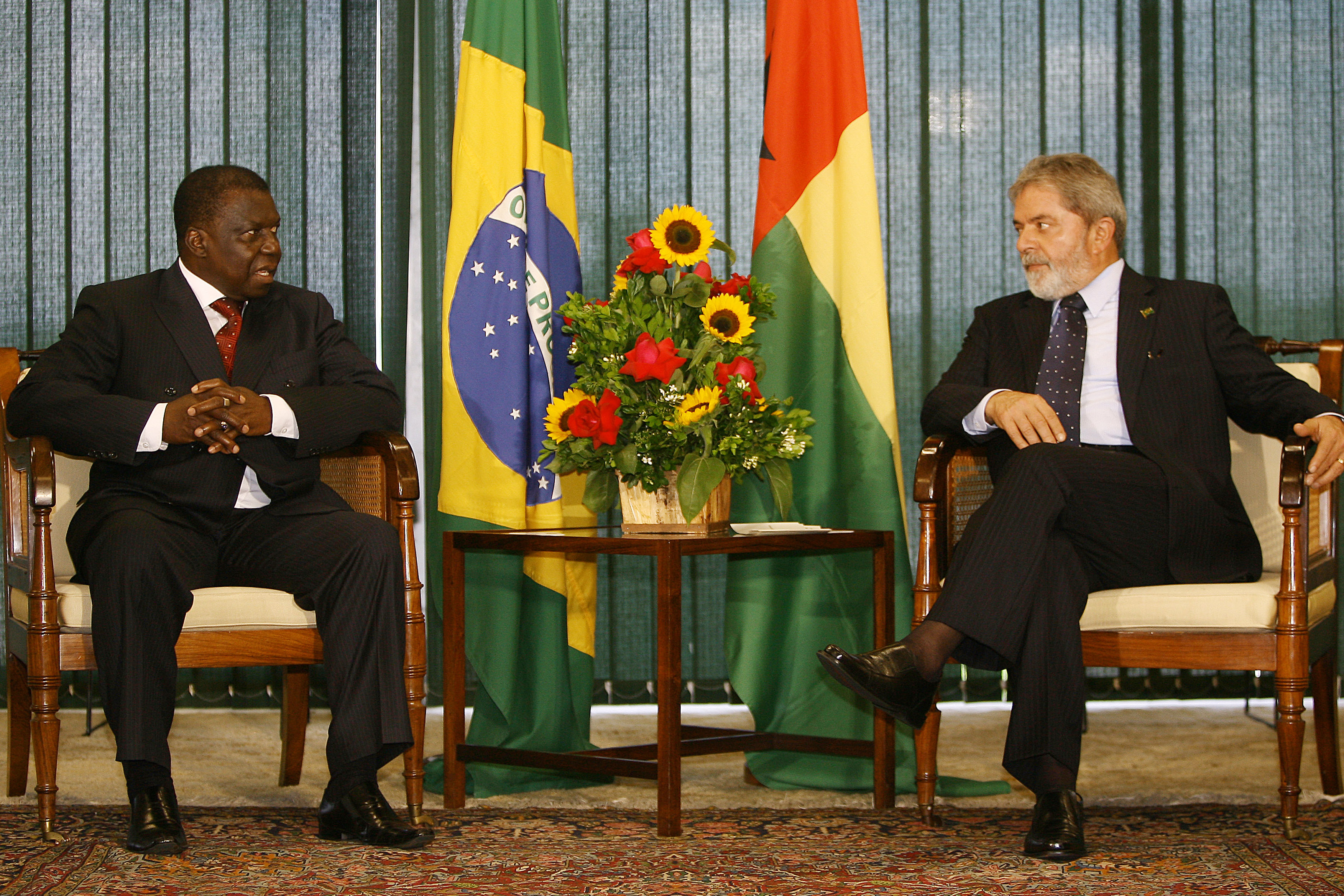 Lula da Silva, President of Brasil, during the official part of João Bernardo Vieira, President of Guinea-Bissau, visit to Brasil